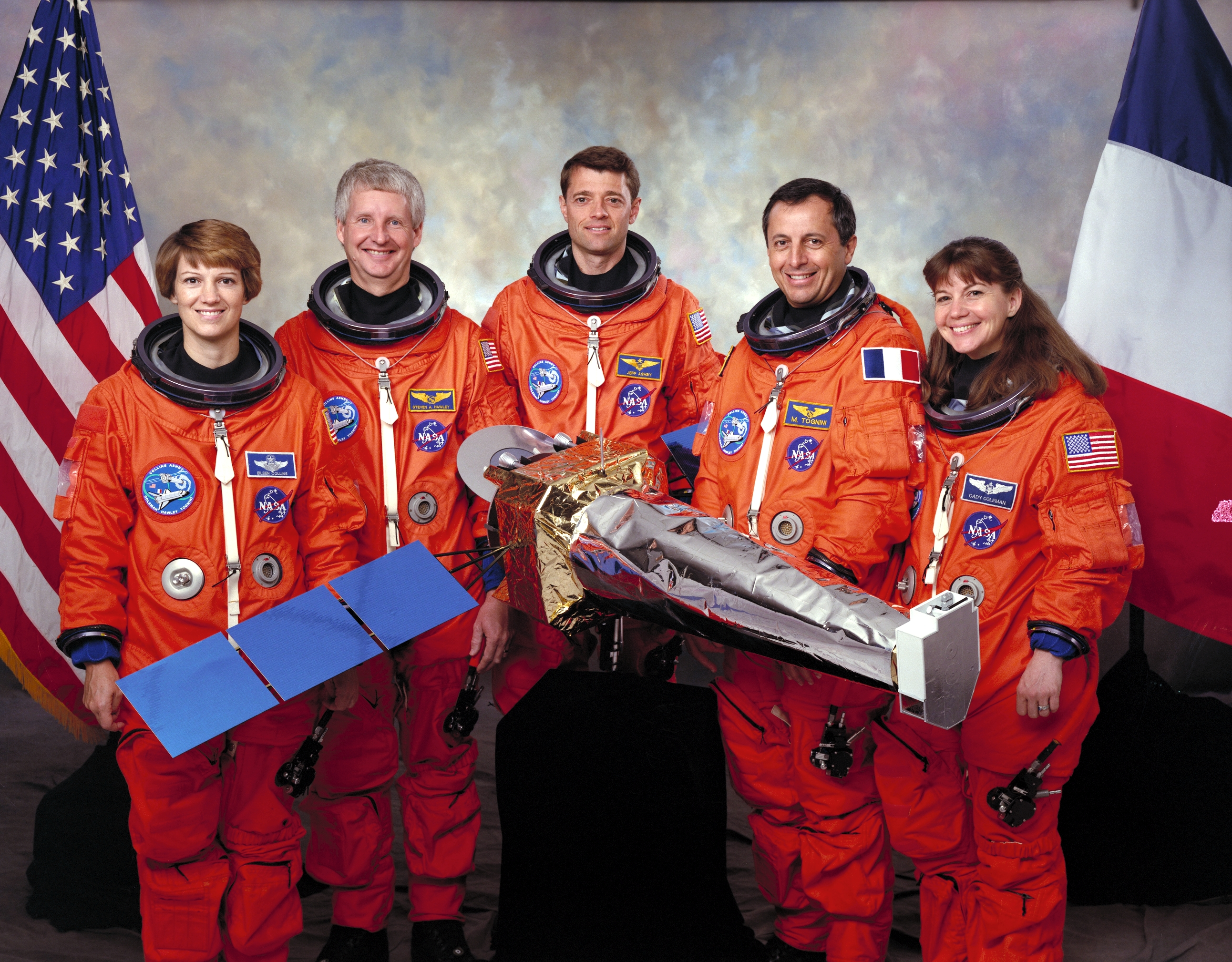 The five astronauts assigned to fly aboard the Space Shuttle Columbia early next year for the STS-93 mission pose with a small model of their primary payload-the Advanced X-ray Astrophysics Facility (AXAF). Collins, mission commander; Steven A. Hawley, mission specialist; Jeffrey S. Ashby, pilot; Michel Tognini and Catherine G. Coleman, both mission specialists. Tognini represents France's Centre National d'Études Spatiales (CNES). The scheduled five-day mission will feature the deployment of AXAF, which will enable scientists to conduct comprehensive studies of exotic phenomena in the universe. Among bodies studied will be exploding stars, quasars and black holes.